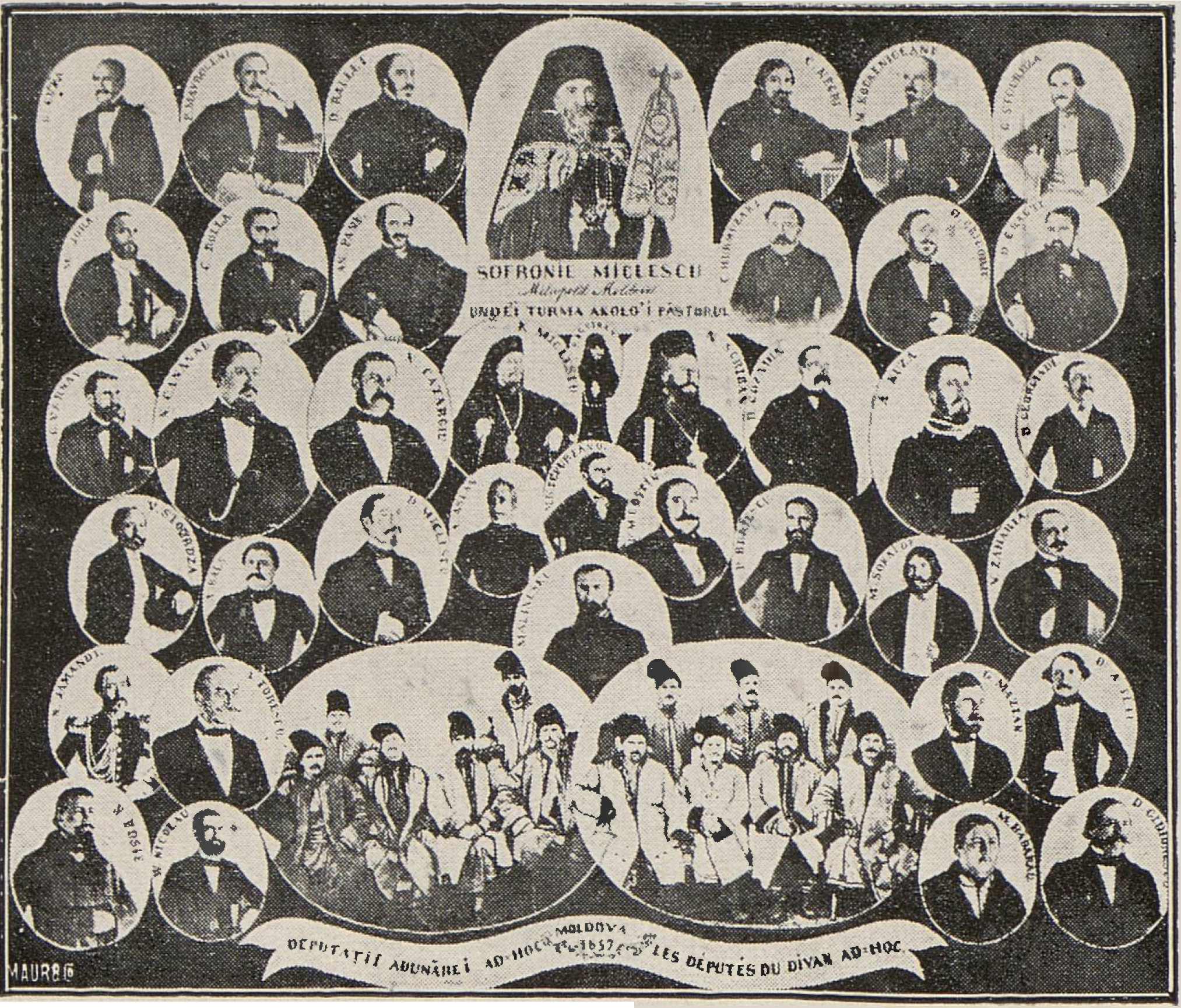 Divanul Ad-hoc from Moldavia, 1857.